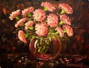 Painting